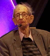 Eric Hobsbawm at Hay-on-Wye 2011